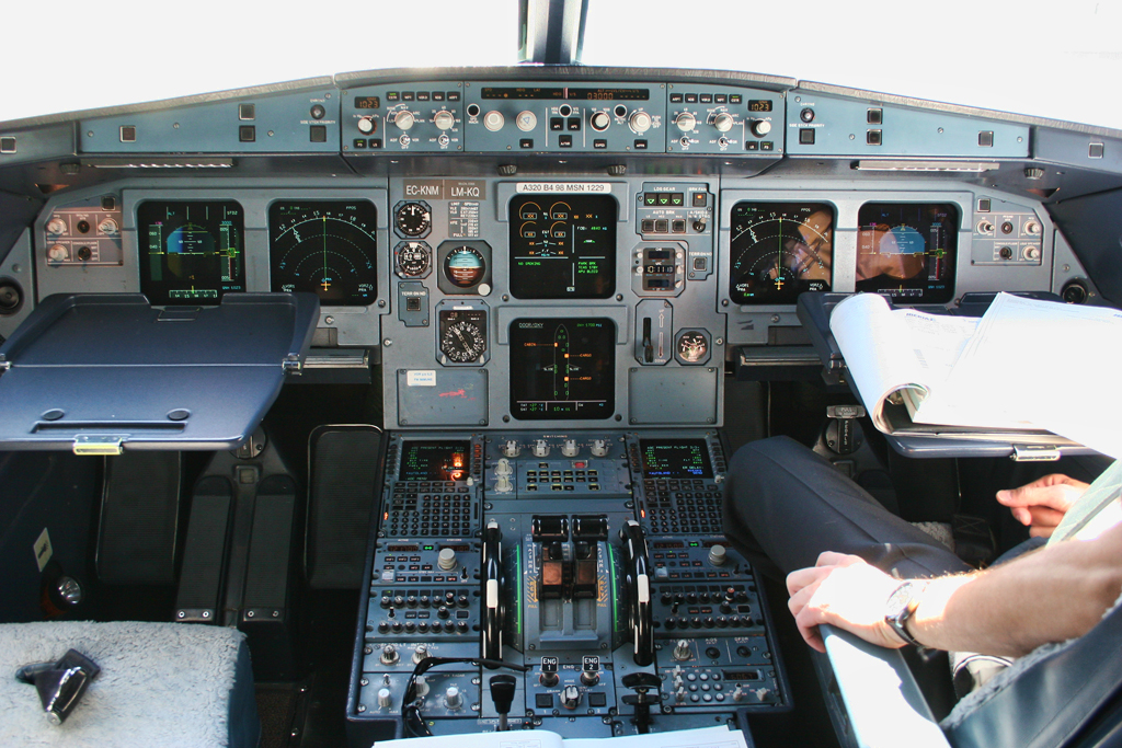 With Iberia